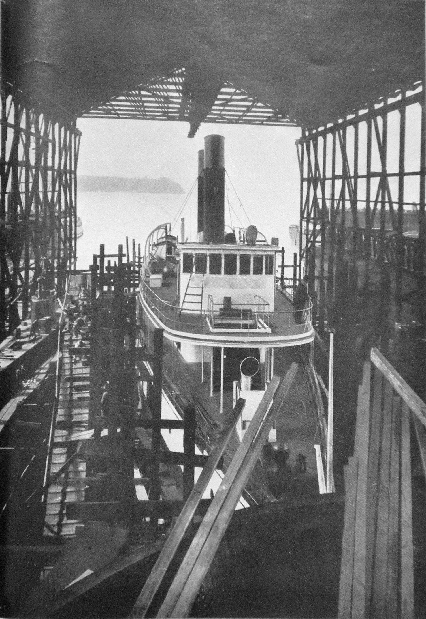 A steamboat under construction, Seattle, Washington, c. 1915.